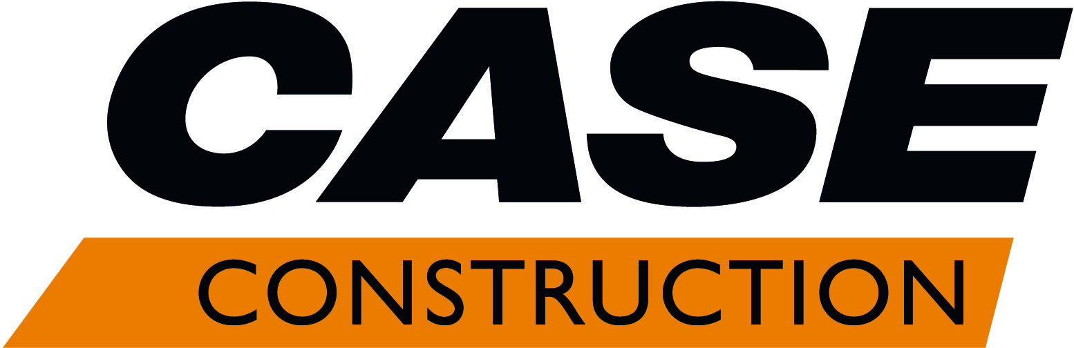 CASE Construction Equipment Logo